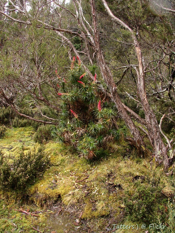 Richea × curtisiae